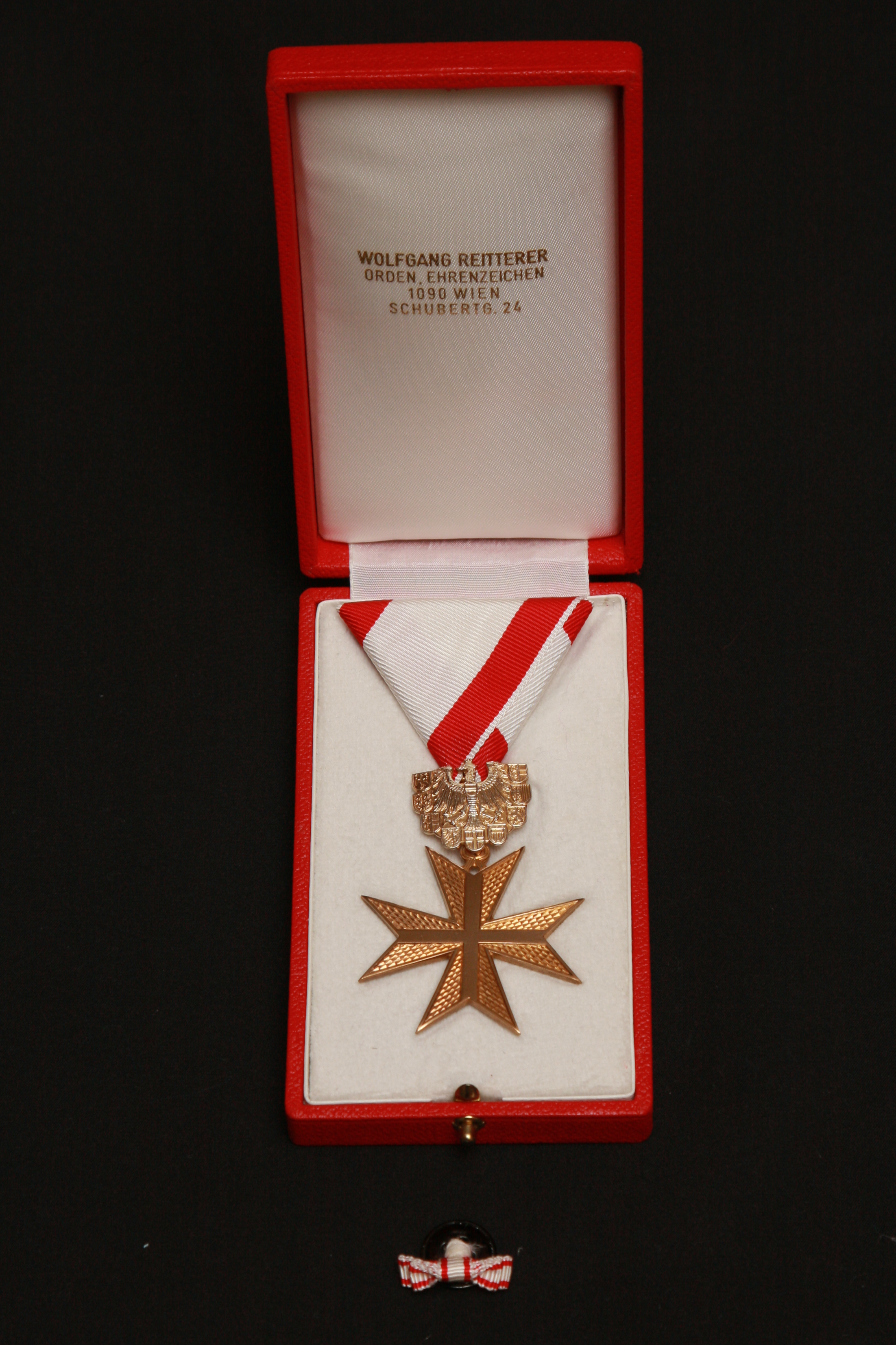 Decoration of Merit in Gold